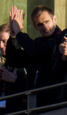 James Hanson. Image cropped from original at flickr.